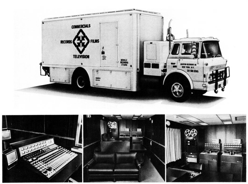 Trade ad for Location Recorders, Inc. mobile studio. To better adapt it to his respective Wikipedia article, the ad was cropped and cleaned in a graphics editing program. The original can be viewed at the source below.